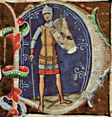 Taksony of Hungary